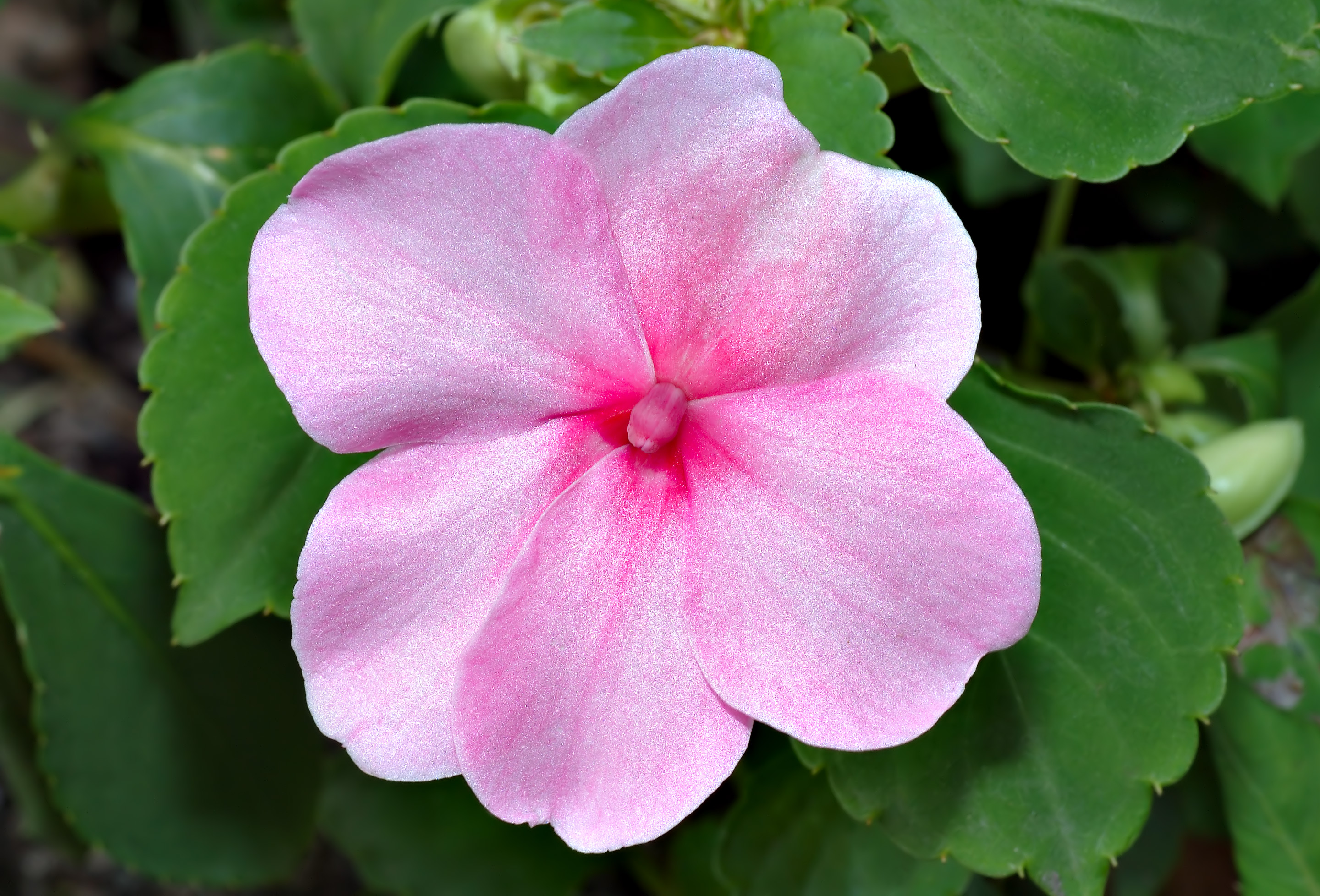 This image shows a Buzzy Lizzy plant (Impatiens walleriana).